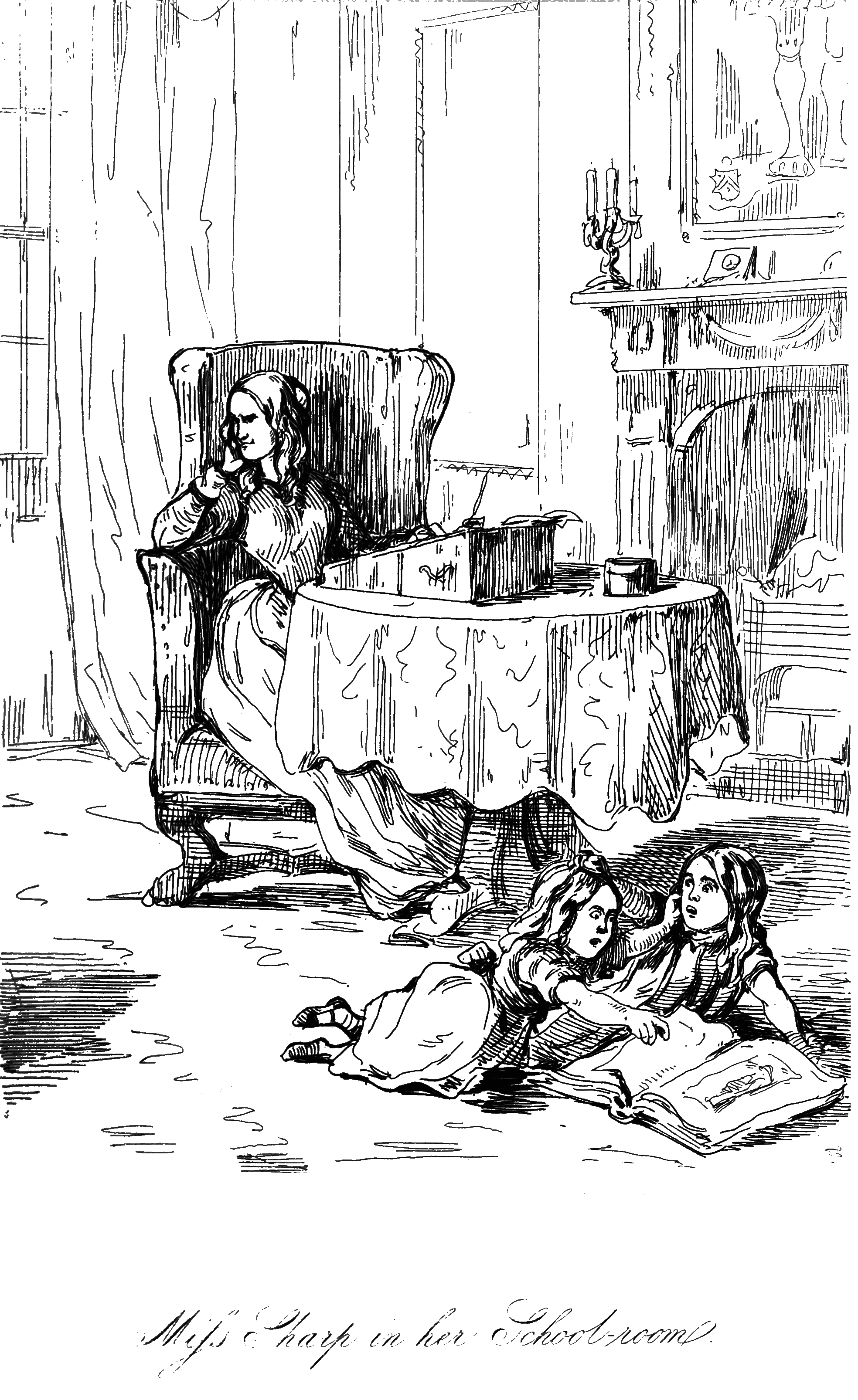 Untitled image from the novel. The number indicates the Djvu page number of the Wikisource transclusion.